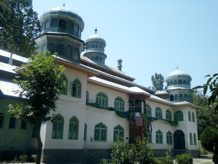 The Beutiful Shrine of Hazrat Shahi Hamdan (RA)